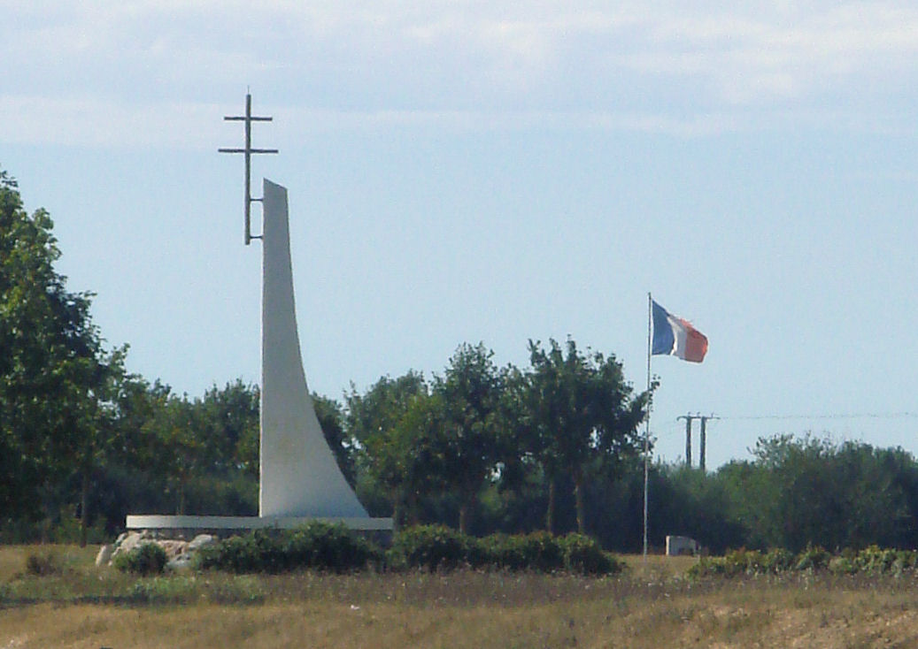 Memorial_de_la_poche_de_La_Rochelle